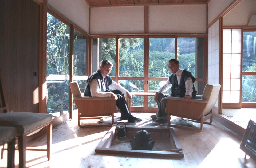 President Reagan and Prime Minister Yasuhiro Nakasone having lunch at Nakasone's country residence in Japan.